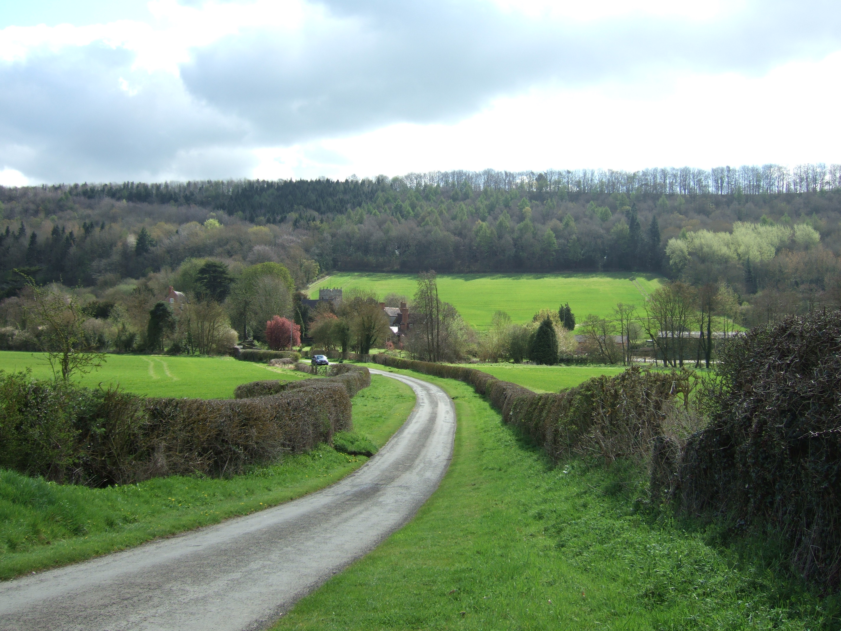 The tiny village of Eaton, with Wenlock Edge behind.